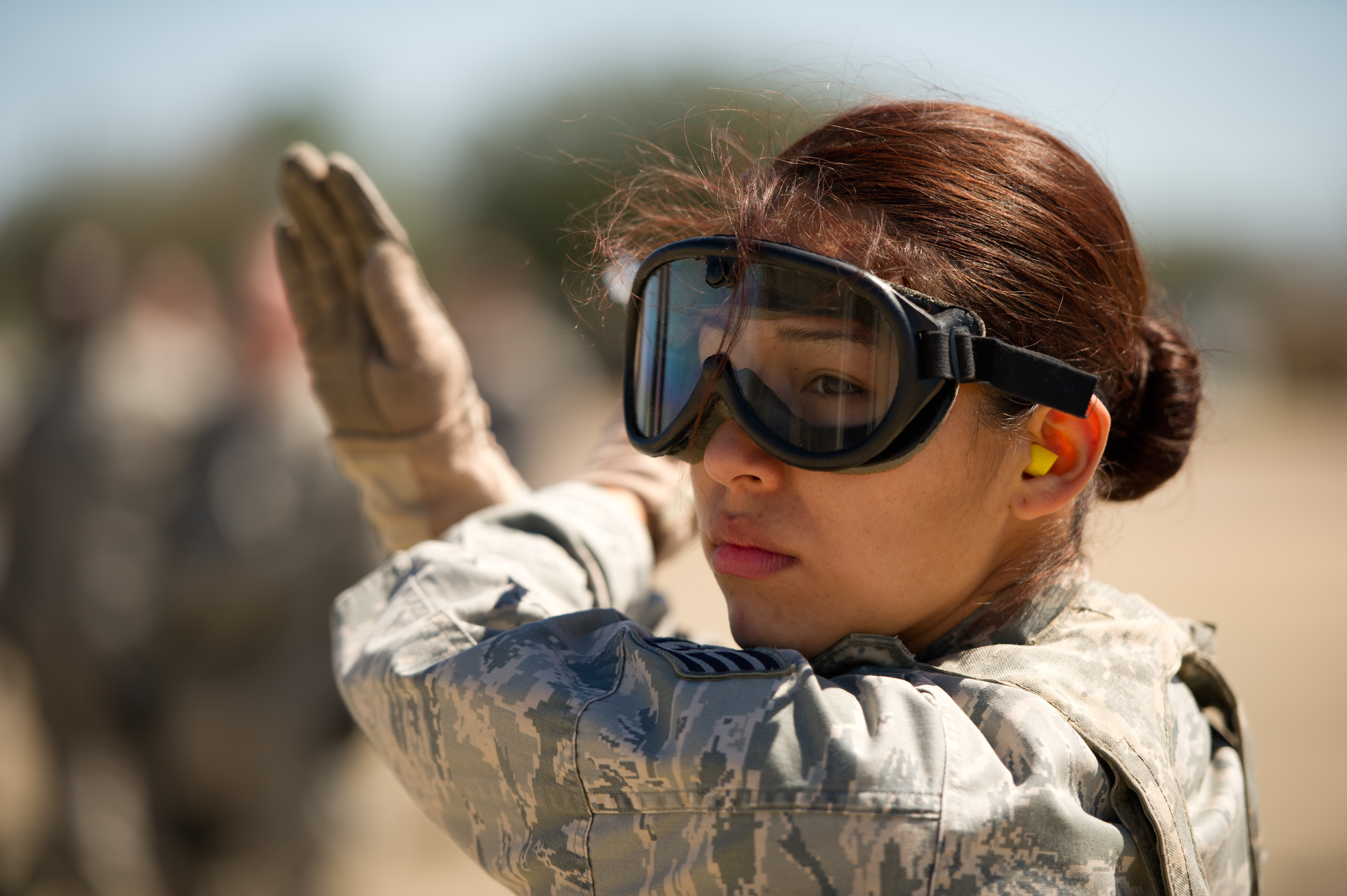 U.S. Air Force Staff Sgt. Rosemery Aragon, an aeromedical service superintendent with the 43rd Aeromedical Evacuation Squadron, signals as Airmen load simulated patients during Joint Readiness Training Center (JRTC) 14-05 training in Alexandria, La., March 13, 2014. The JRTC provides U.S. military units and personnel with realistic pre-deployment training scenarios in all aspects of armed conflict.